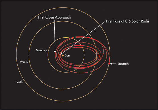 The baseline Solar Probe Plus trajectory uses Venus flybys and no deep space maneuvers to reach a minimum perihelion of 8.5 solar radii (above the Sun’s surface) in 6.4 years.